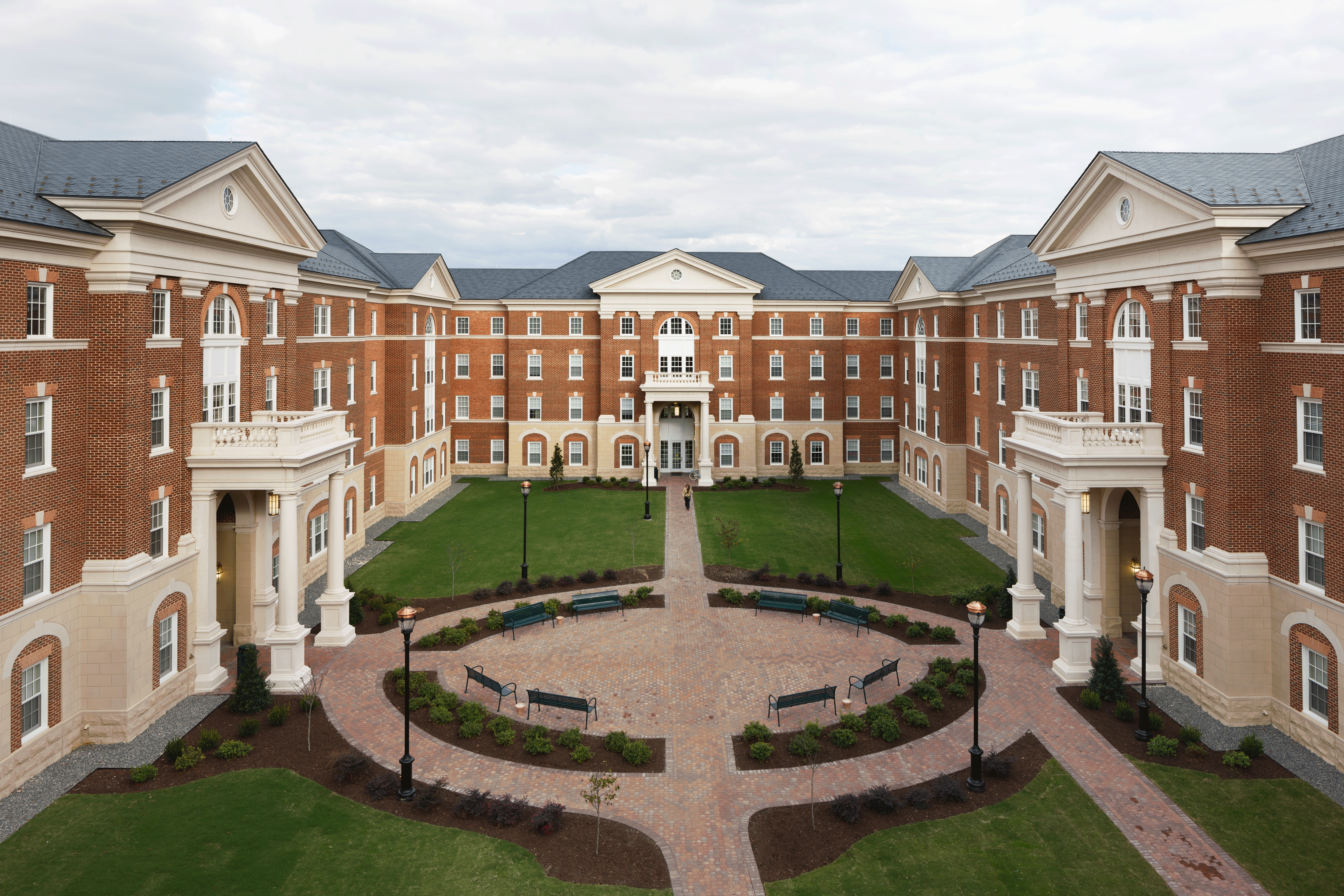 Rappahannock River Hall at Christopher Newport University